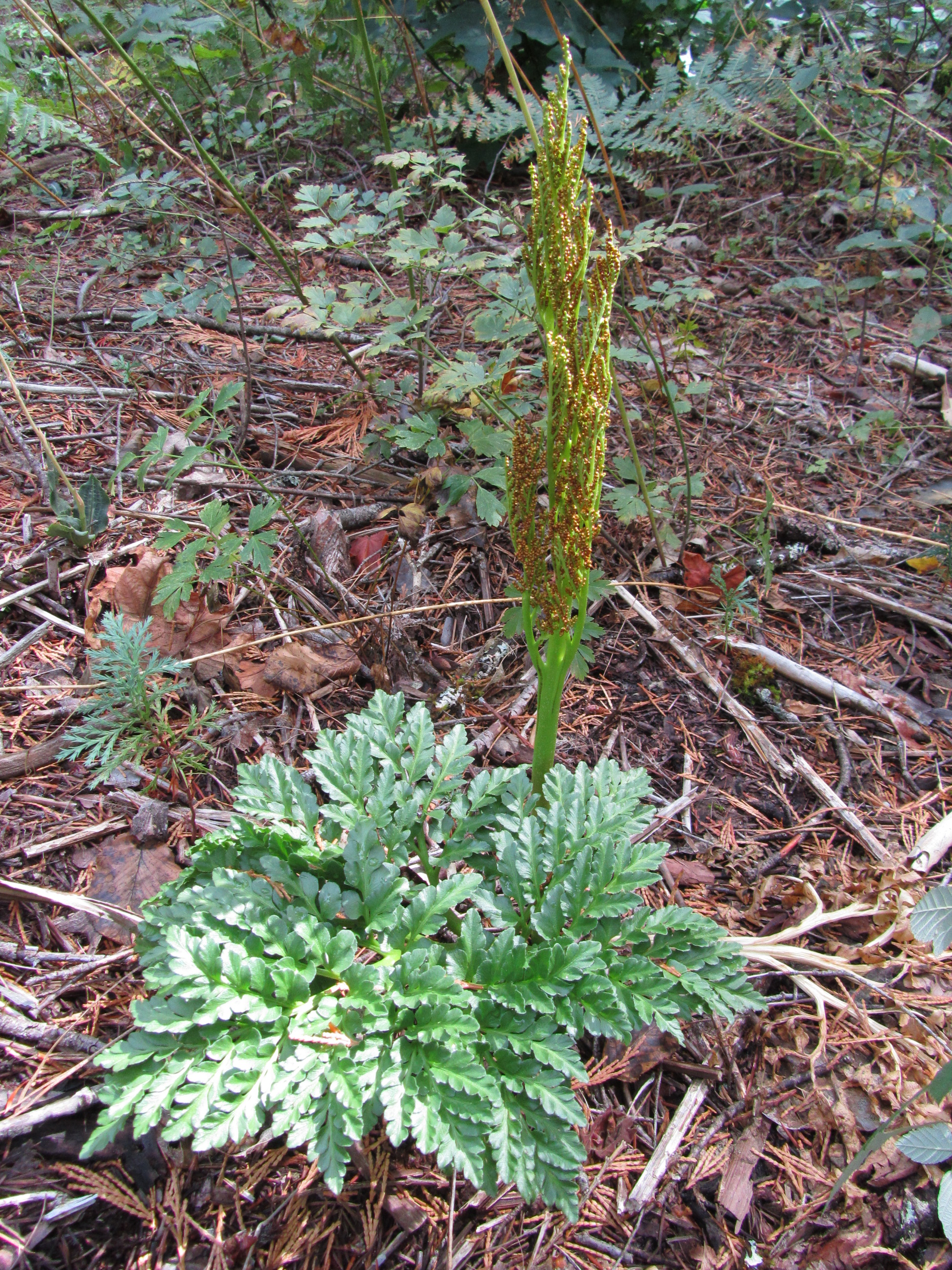 What is the exact species, is it multifadum?